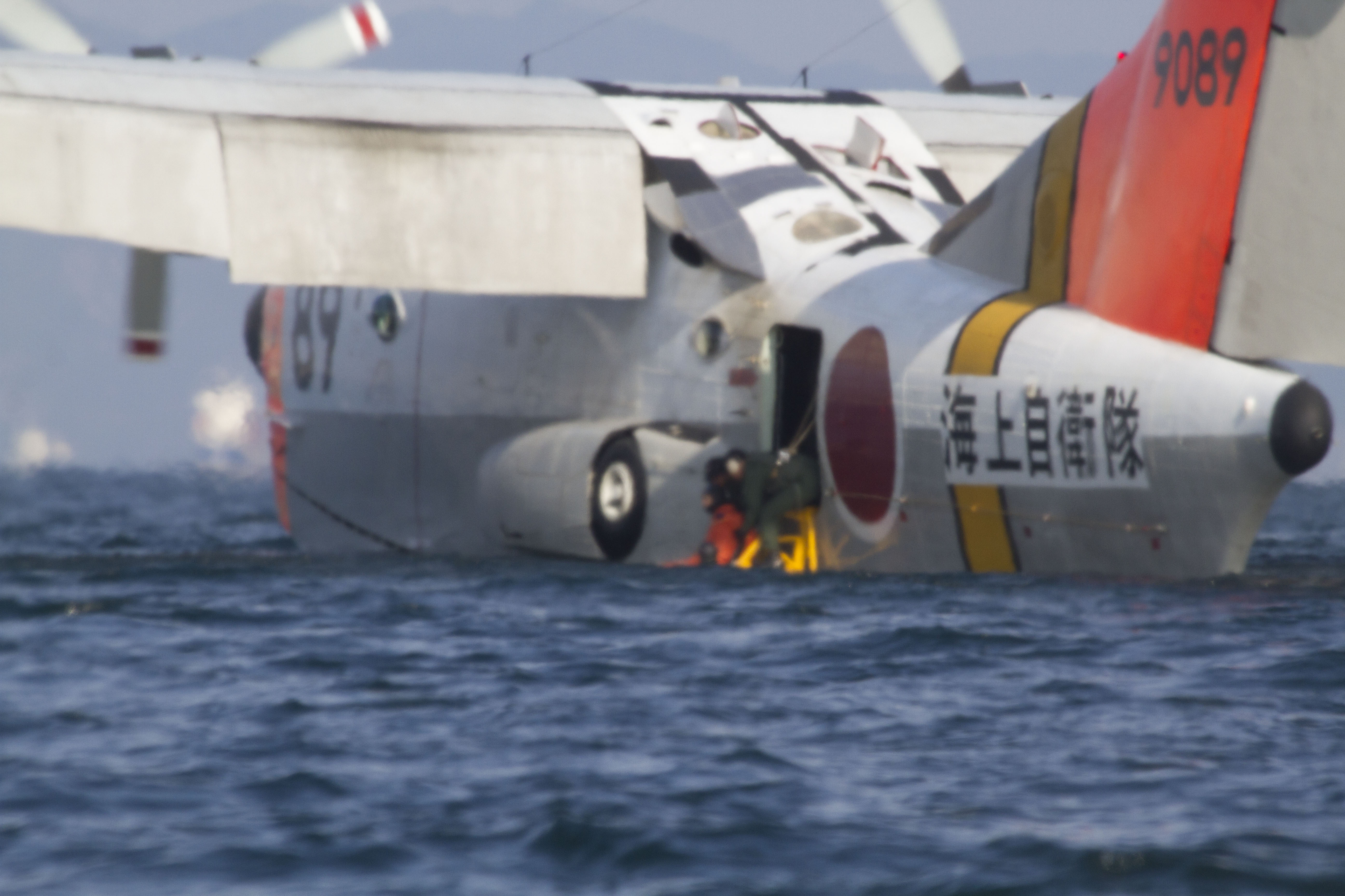 A Japanese Maritime Self Defense Force rescue diver pulls a stranded person into the JMSDF US-2 seaplane during a simulated search and rescue exercise at Marine Corps Air Station Iwkauni, Japan, Jan. 8, 2013. JMSDF conducted the search and rescue scenario to mark the US-1A's first flight of the year. (U.S. Marine Corps photo by Lance Cpl. Todd F. Michalek/Released)